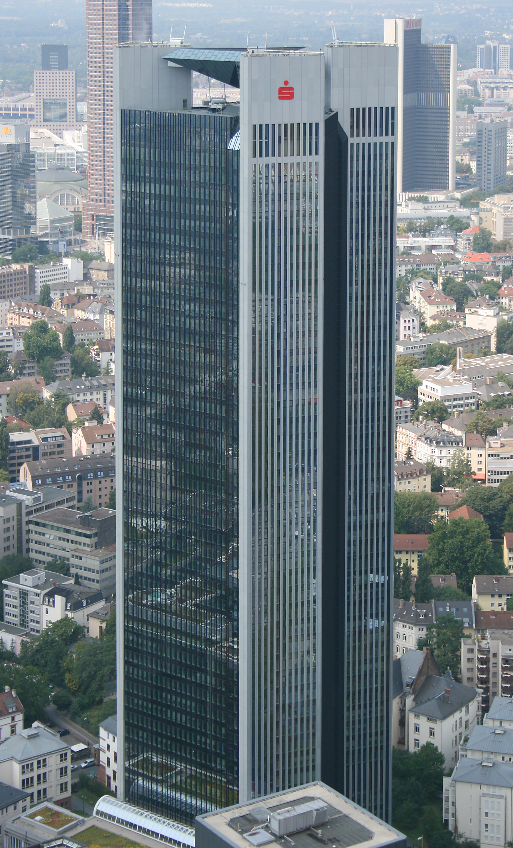 Trianon in Frankfurt am Main, Germany (view from Maintower)